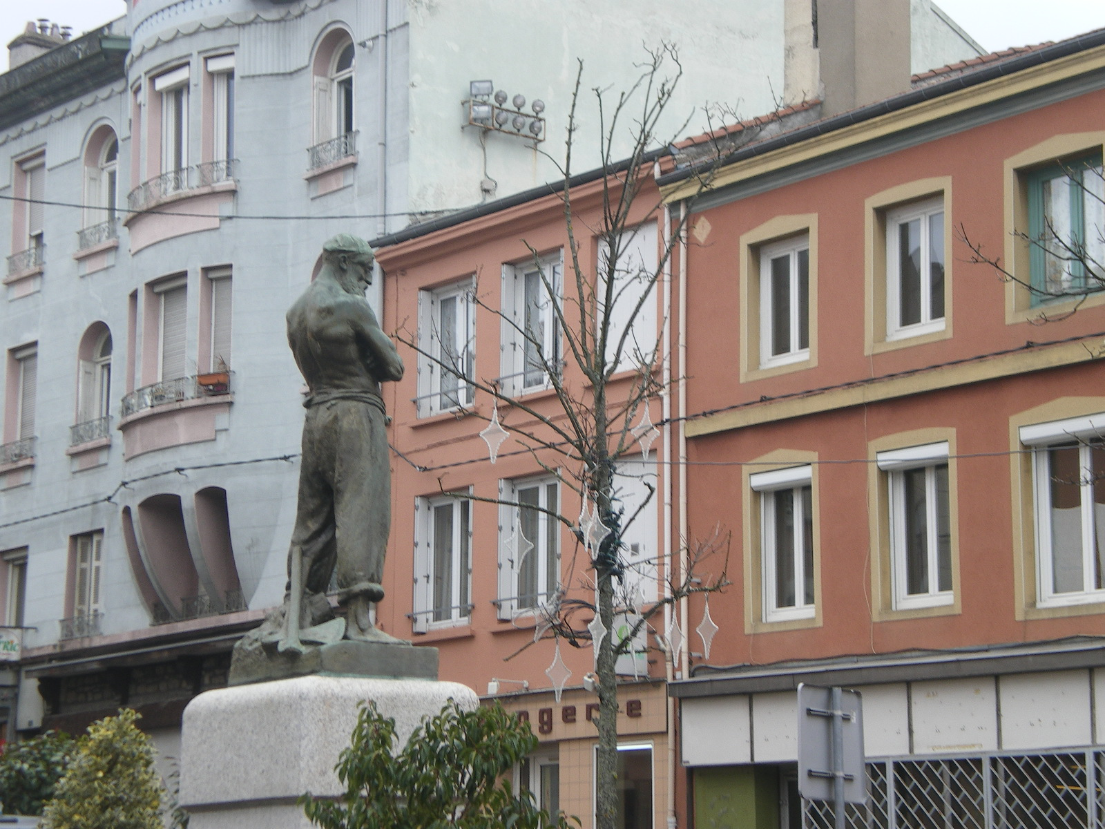 View of Michel Rondet statue in La Ricamarie (France).